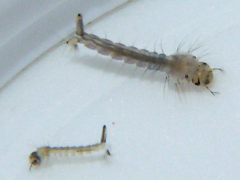 2 mosquito larvae